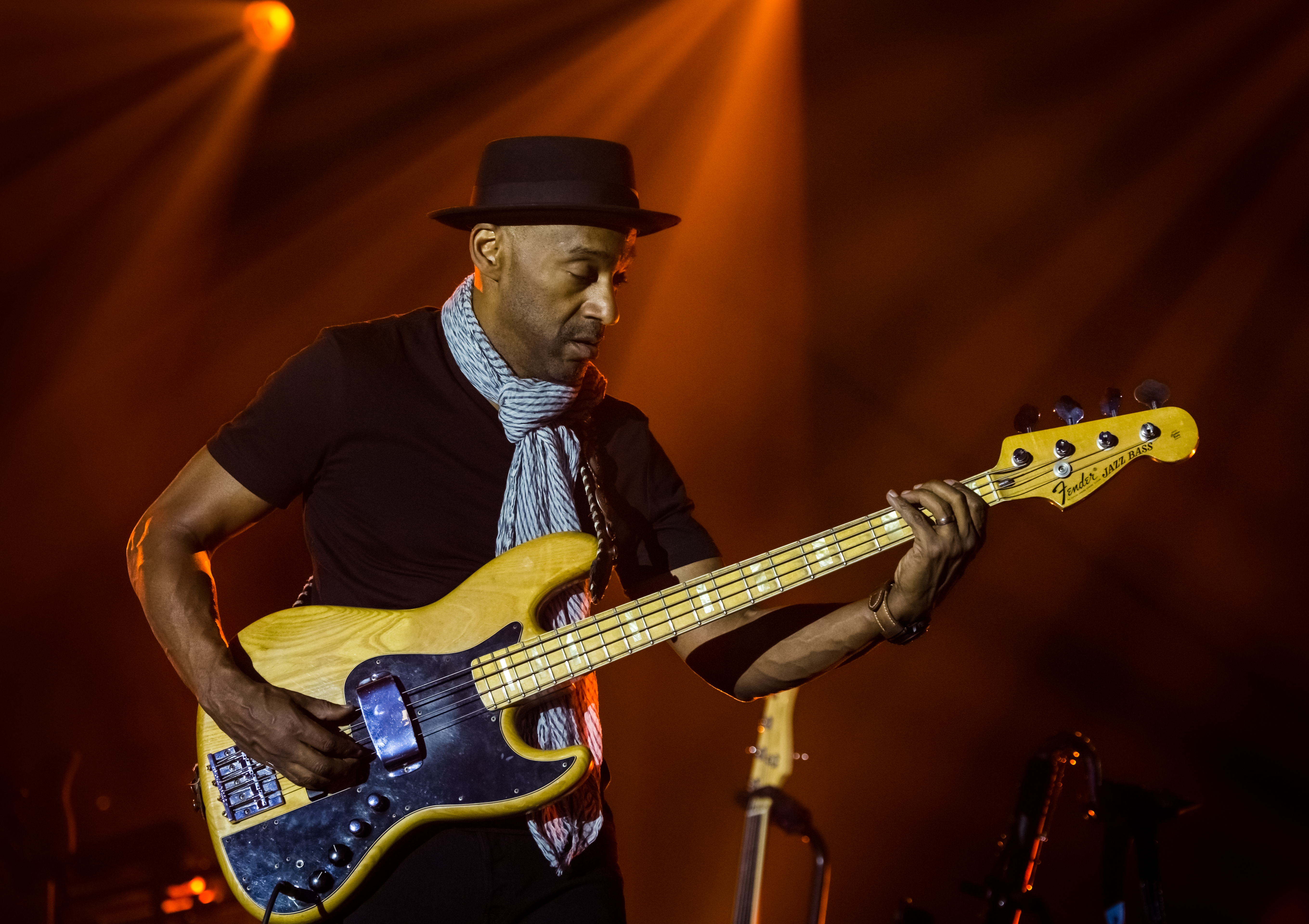 Marcus Miller - Leverkusener Jazztage 2017